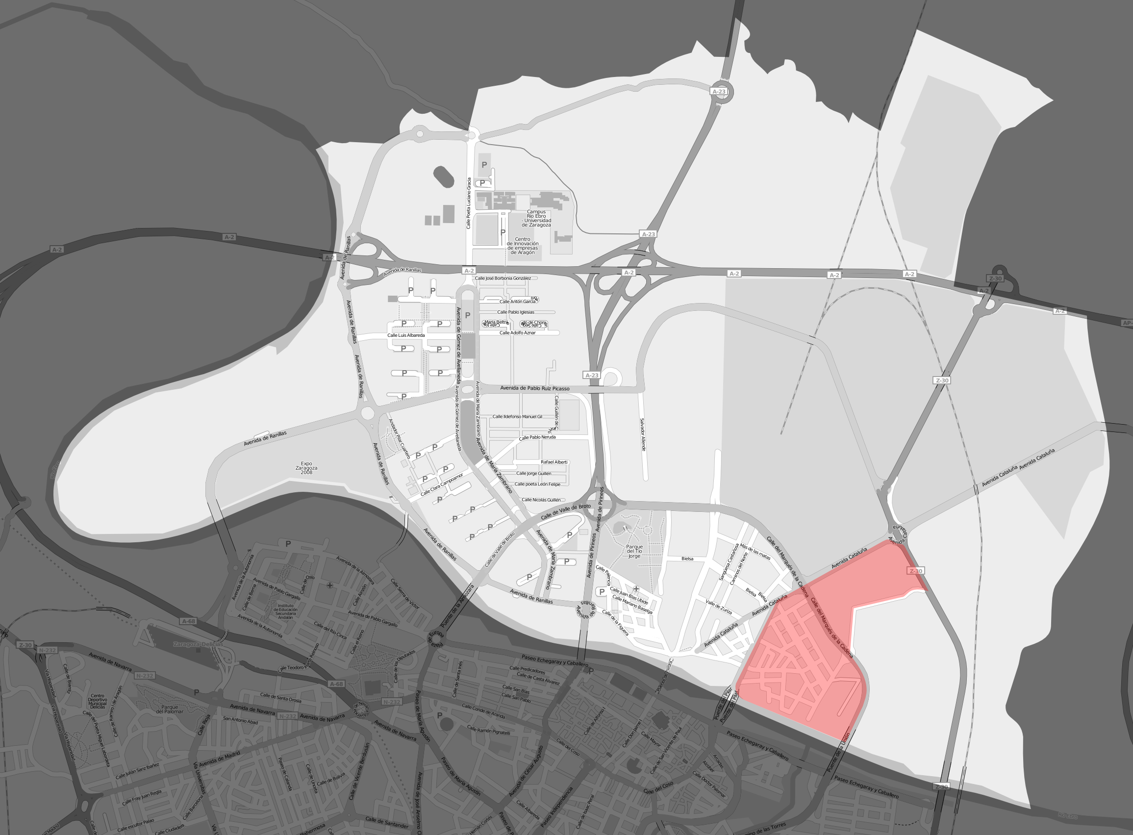 This map may be incomplete, and may contain errors. Don't rely solely on it for navigation.